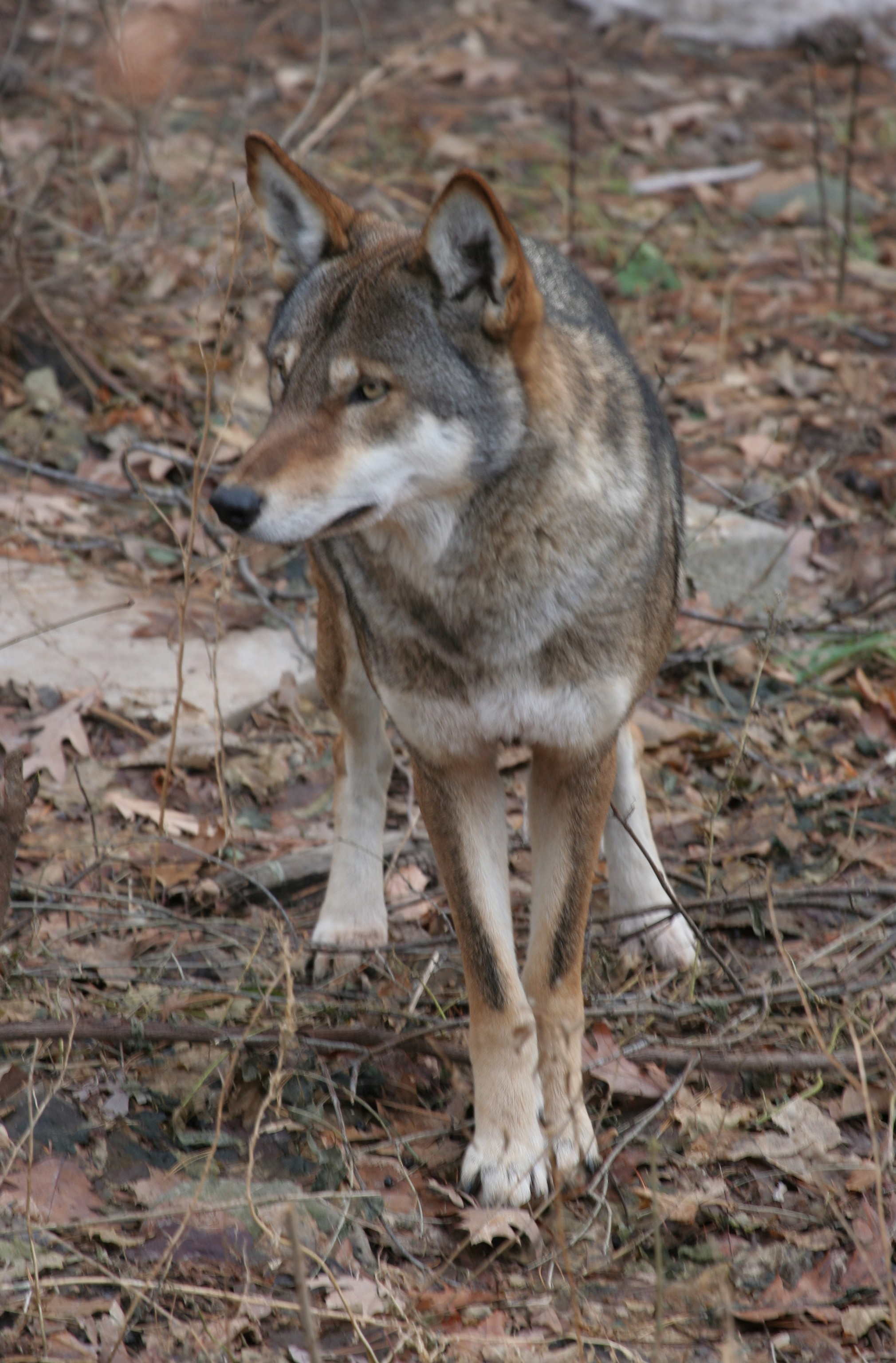 Red wolf (Canis rufus) at the Rosamond Gifford Zoo, Syracuse, New York.